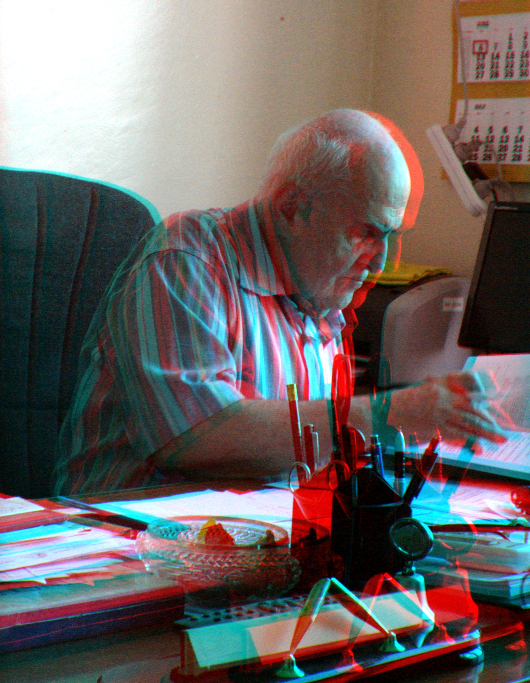 Edvard Chubaryan, 75th Birthday, No. 04, 6 May 2011, Anaglyph Red Cyan Stereo